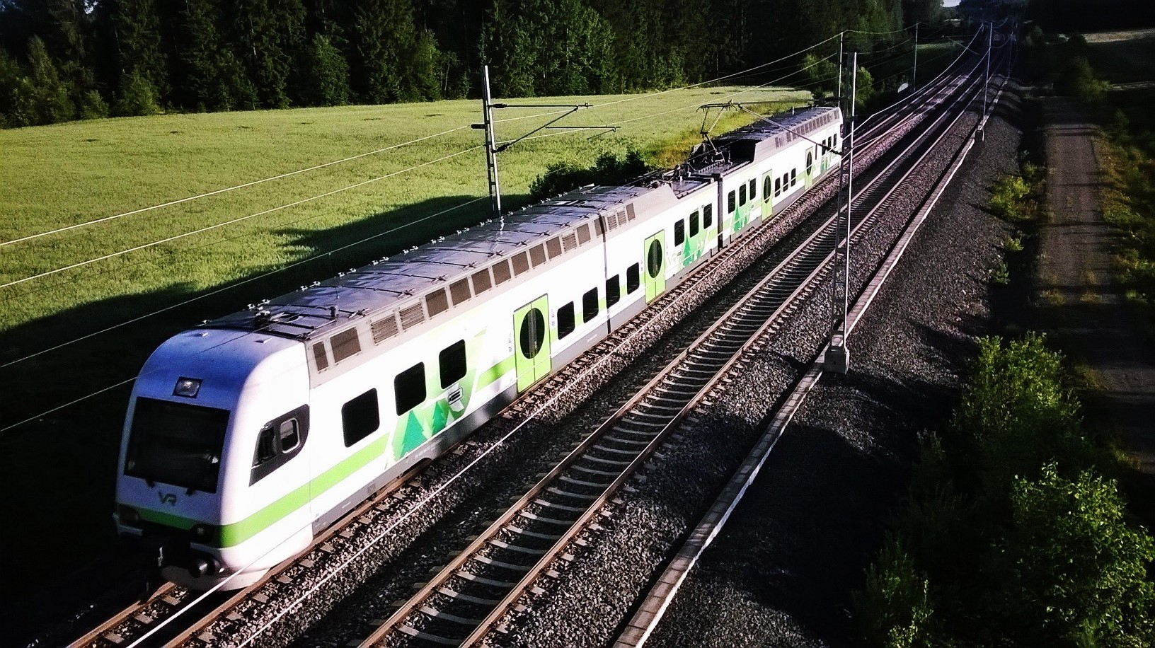 An Sm4 train on the Kerava–Lahti railway, Finland. 2016